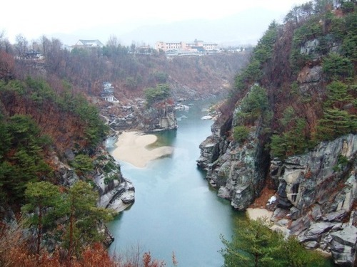 Hantan River